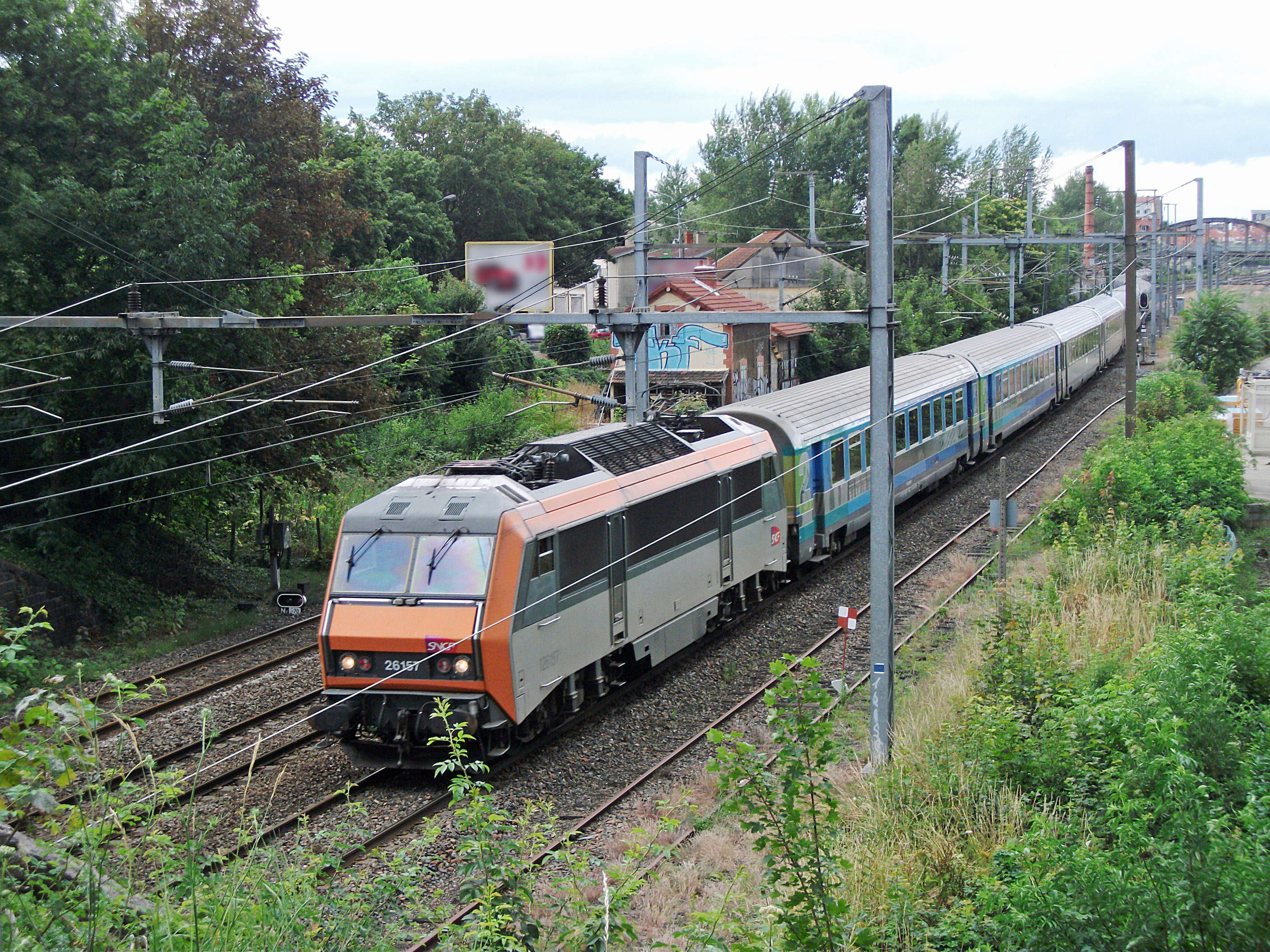 This passenger train INTERCITES 5959, taken at 4pm o'clock, goes to Clermont-Ferrand after serving Vichy railway station, platform A. Begin of the Vichy–Riom railway.